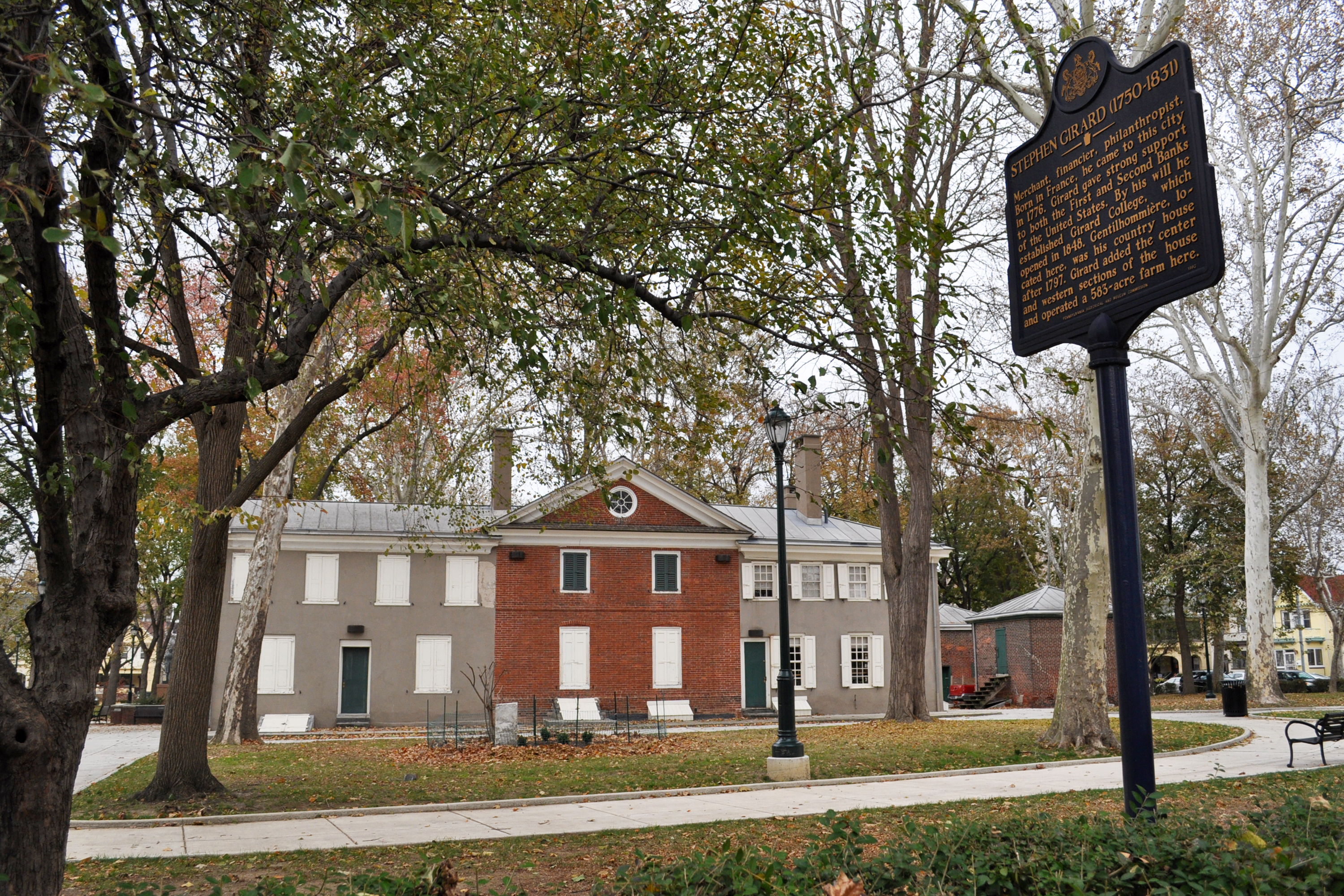 Stephen Girard (1750-1831). Merchant, financier, philanthropist. Born in France, he came to this city in 1776. Girard gave strong support to both the First and Second Banks of the United States. By his will he established Girard College, which opened in 1848. Gentilhommiere, located here, was his country house after 1797. Girard added the center and western sections of the house and operated a 583-acre farm here. (Historical Marker in Girard Park at 2101 Shunk St. Philadelphia PA - Pennsylvania Historical and Museum Commission 1993)